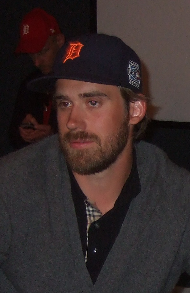 Ice hockey player Henrik Zetterberg, signing autographs while wearing a Detroit Tigers baseball cap in E.ON Arena, Timrå, Sweden